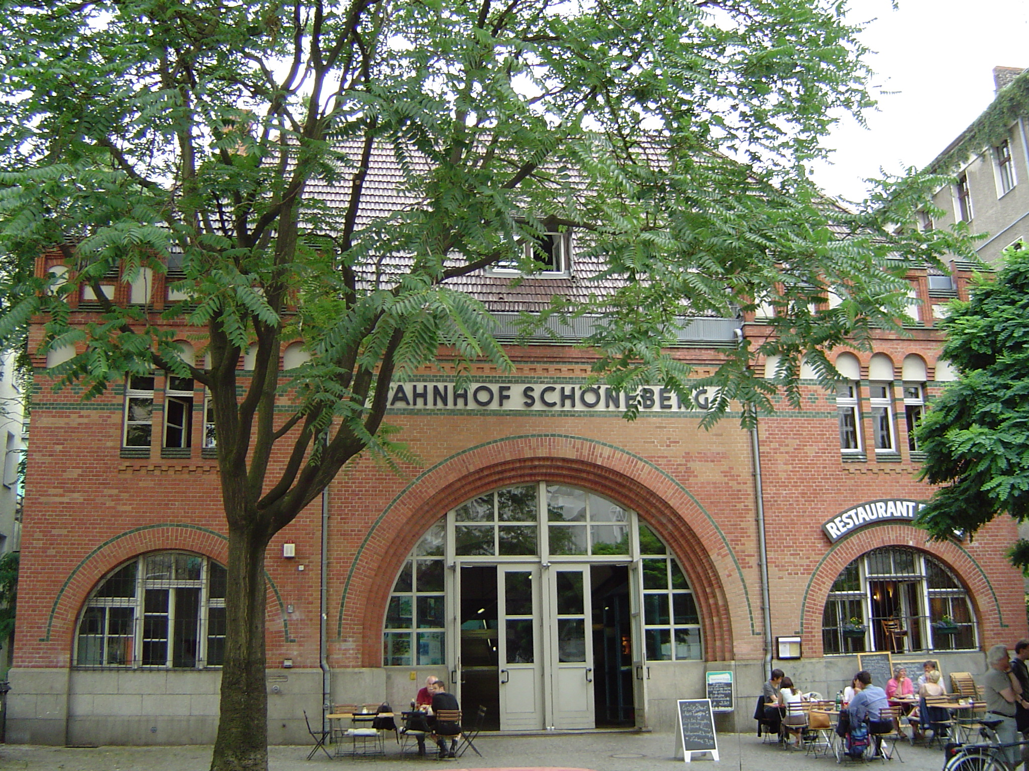 Image shows the circle line entry of Schöneberg station in Berlin Schöneberg.